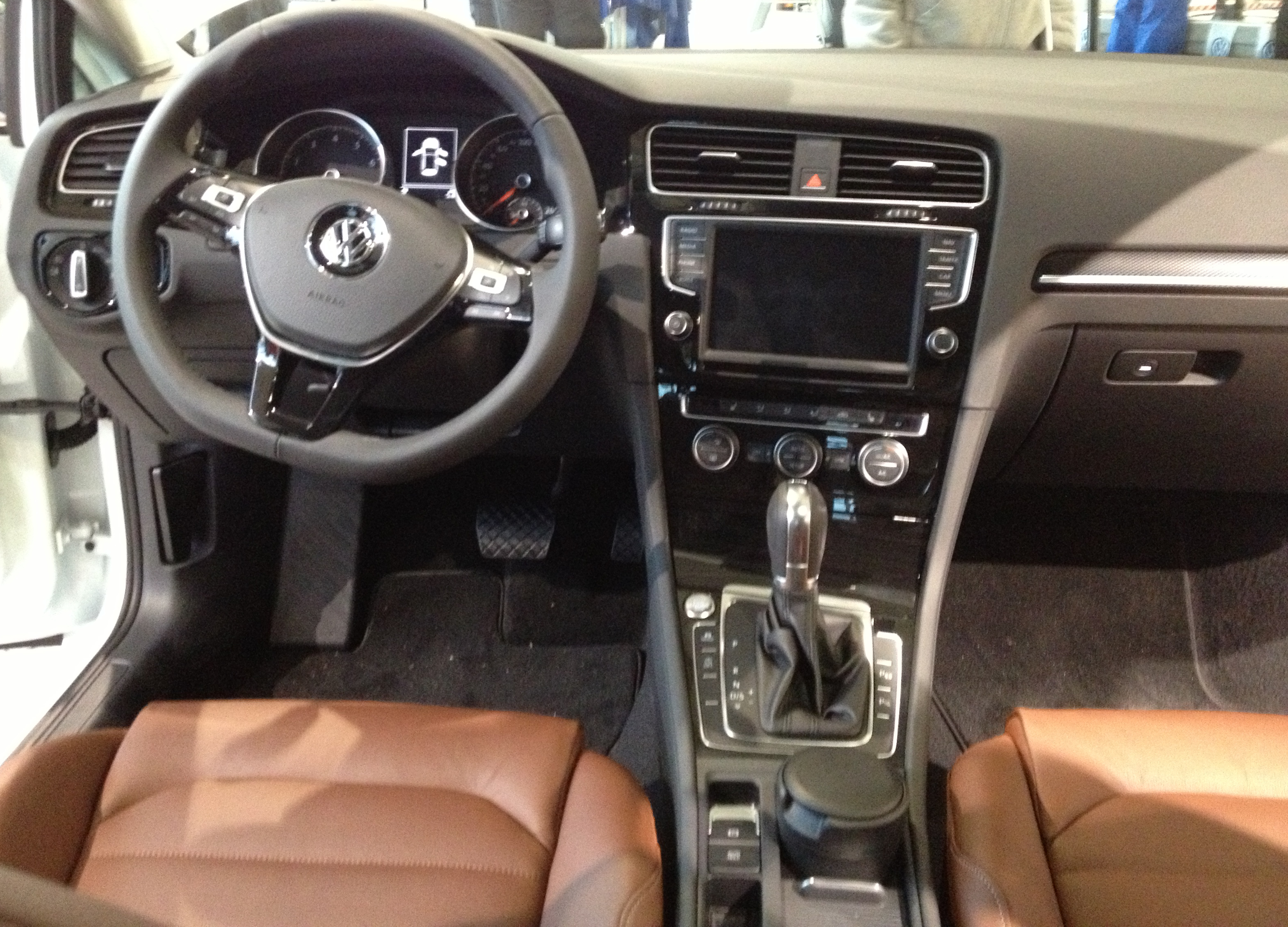 VW Golf VII dashboard